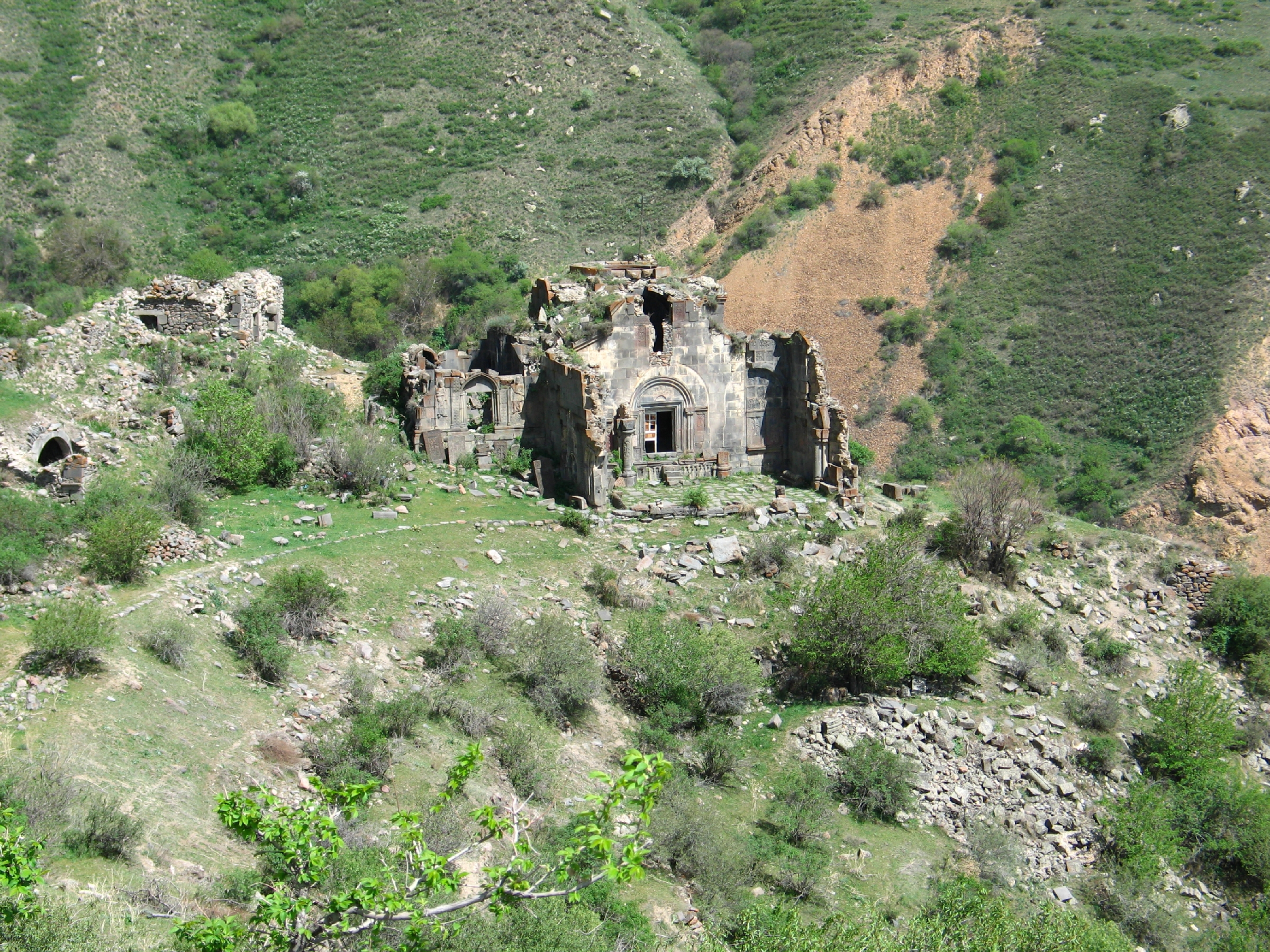 Աղջոց վանք 99.1/1.1